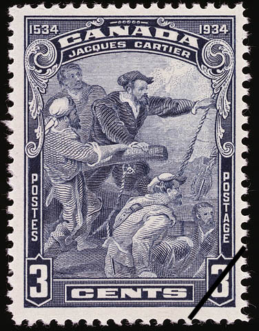 Canada Postage stamp, issue of 1934, 3¢. On the 1st July, 1934, a special 3-cent stamp commemorated the four-hundredth anniversary of the discovery of Canada by the French navigator, Jacques Cartier. (From: Patrick, Douglas and Mary Patrick. Canada's Postage Stamps. Toronto, McClelland and Stewart Limited, 1964, p. 68.) [1] Designed by the British American Bank Note Company, design adapted from company vignette (ca. 1870) previously used on bank notes and certificates. [2]